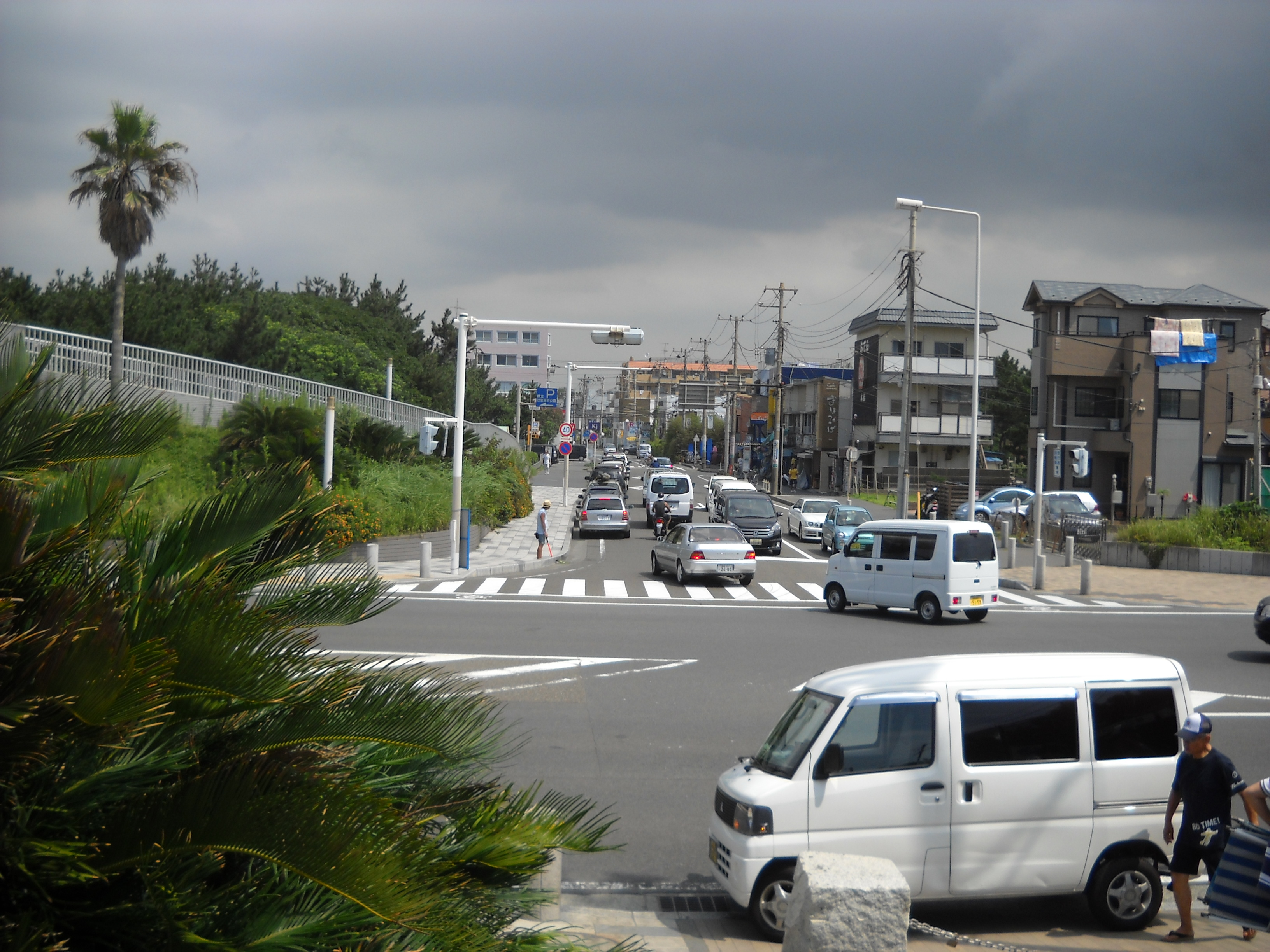 Kanagawa prefectural road route308,Fujisawa,Kanagawa,Japan